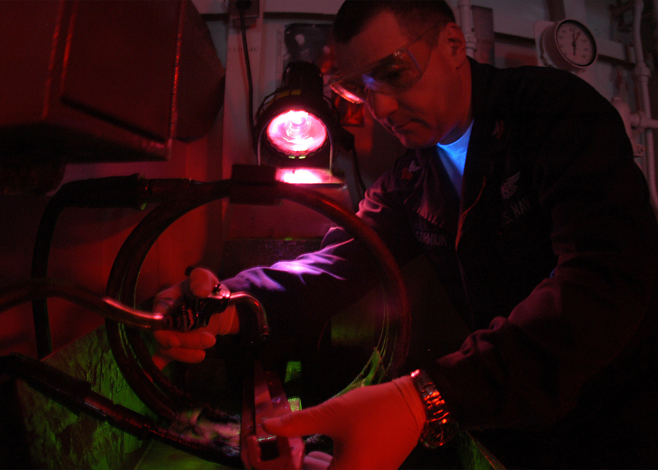 Atlantic Ocean (Dec. 15, 2003) -- Aviation Structural Mechanic 1st Class Nagorniuk Artem, from Keiv, Ukraine, performs a magnetic particle inspection on an aircraft part in the non-destructive inspection lab in the ship’s Aviation Intermediate Maintenance Department (AIMD) aboard USS George Washington (CVN 73). The Norfolk, Va.-based nuclear powered aircraft carrier is conducting Composite Training Unit Exercises (COMPTUEX) in preparation for an upcoming deployment. U.S. Navy photo by Photographer’s Mate Airman Konstandinos Goumenidis. (RELEASED)